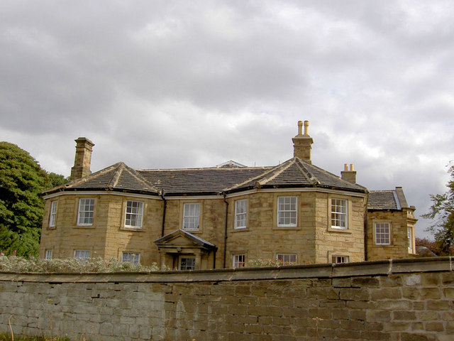 Burntwood Hall. Now a nursing home, in the 1970's it was the offices for Billington Structures Ltd.